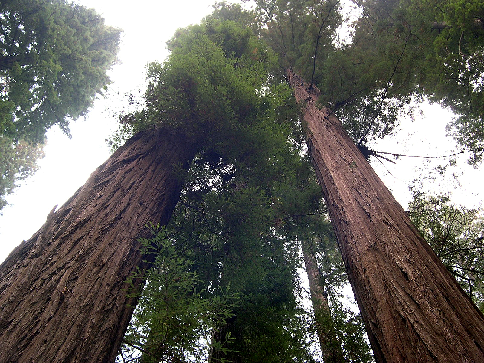 Founders Grove, Humboldt Redwoods State Park - Coast Redwood (Sequoia sempervirens)